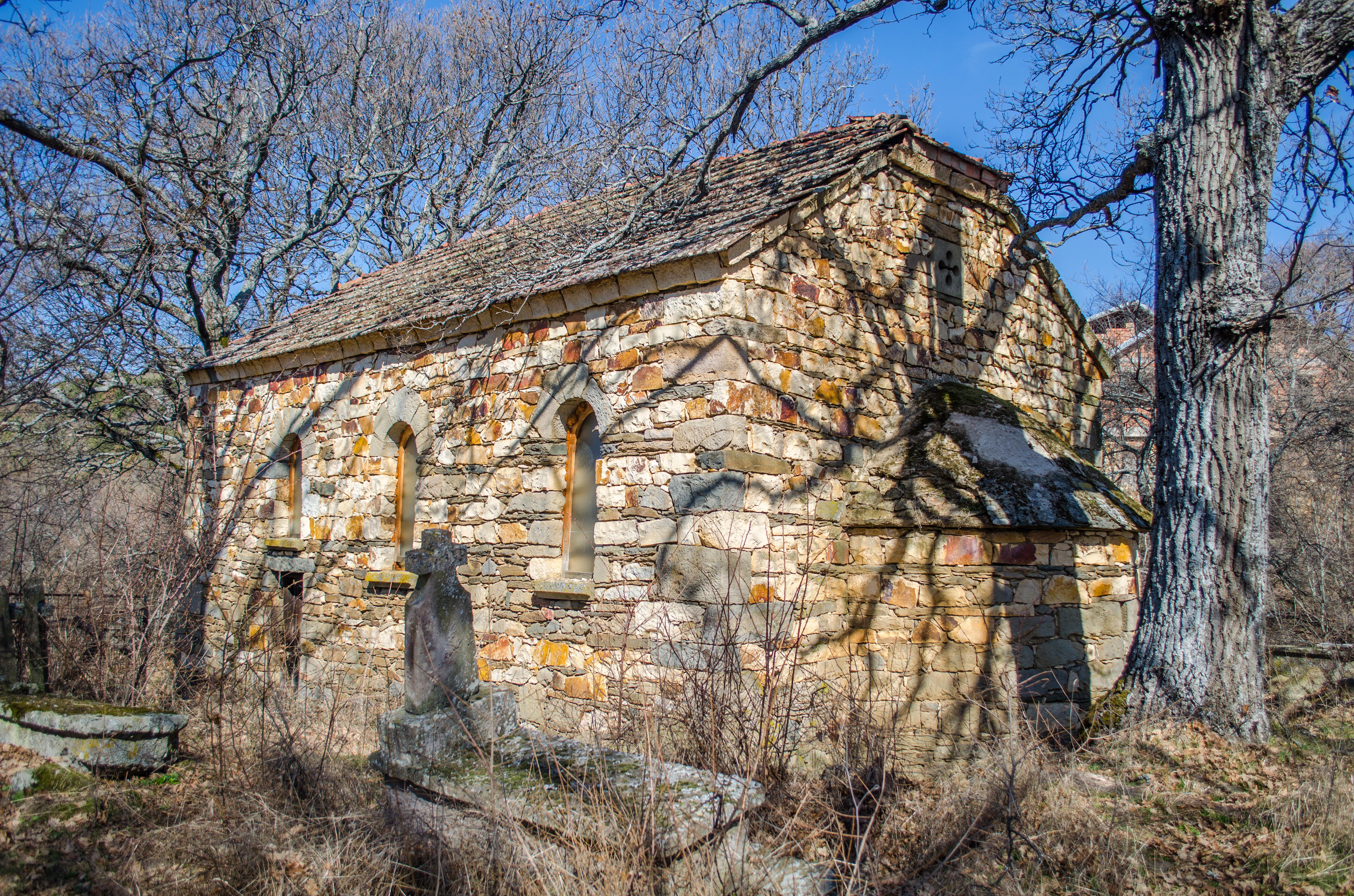 View of the Church of the Ascension of Jesus in the village Arbanaško